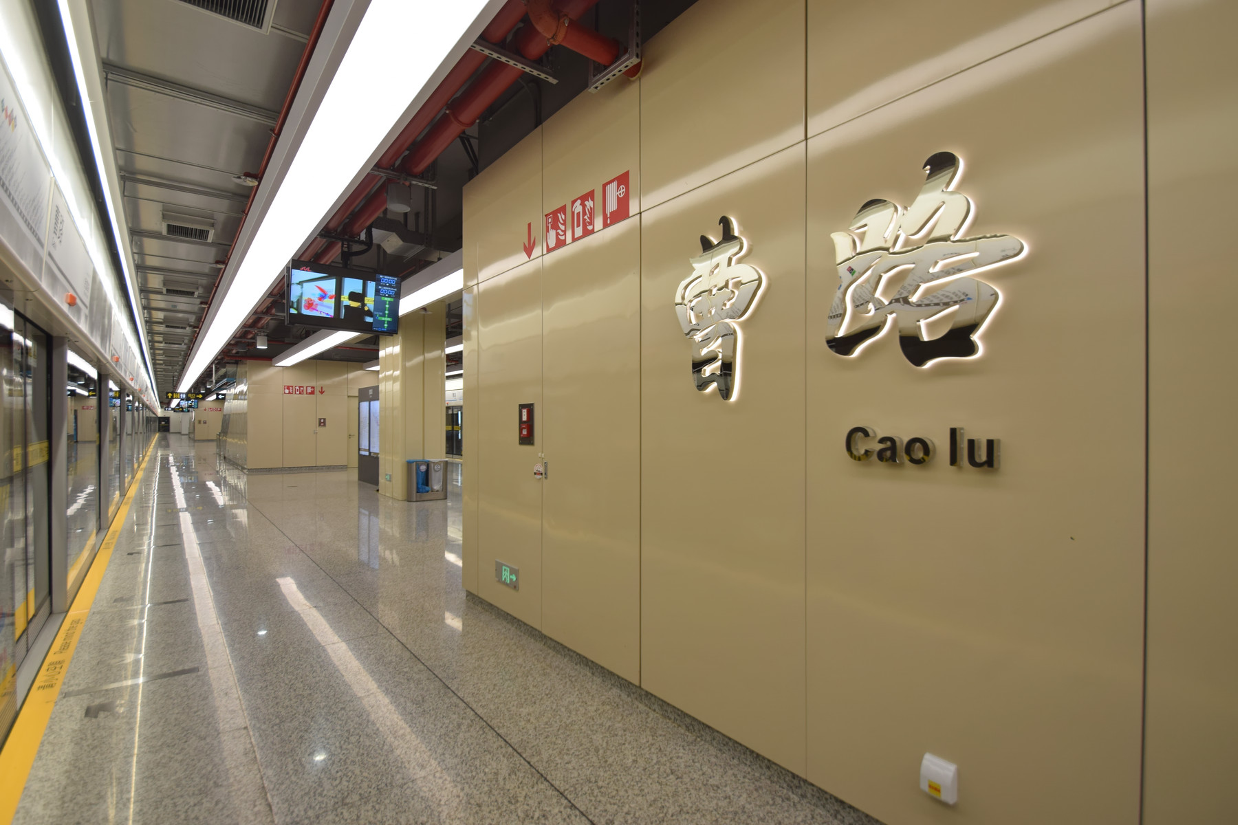 Line 9 Platform of Caolu Station, Shanghai Metro